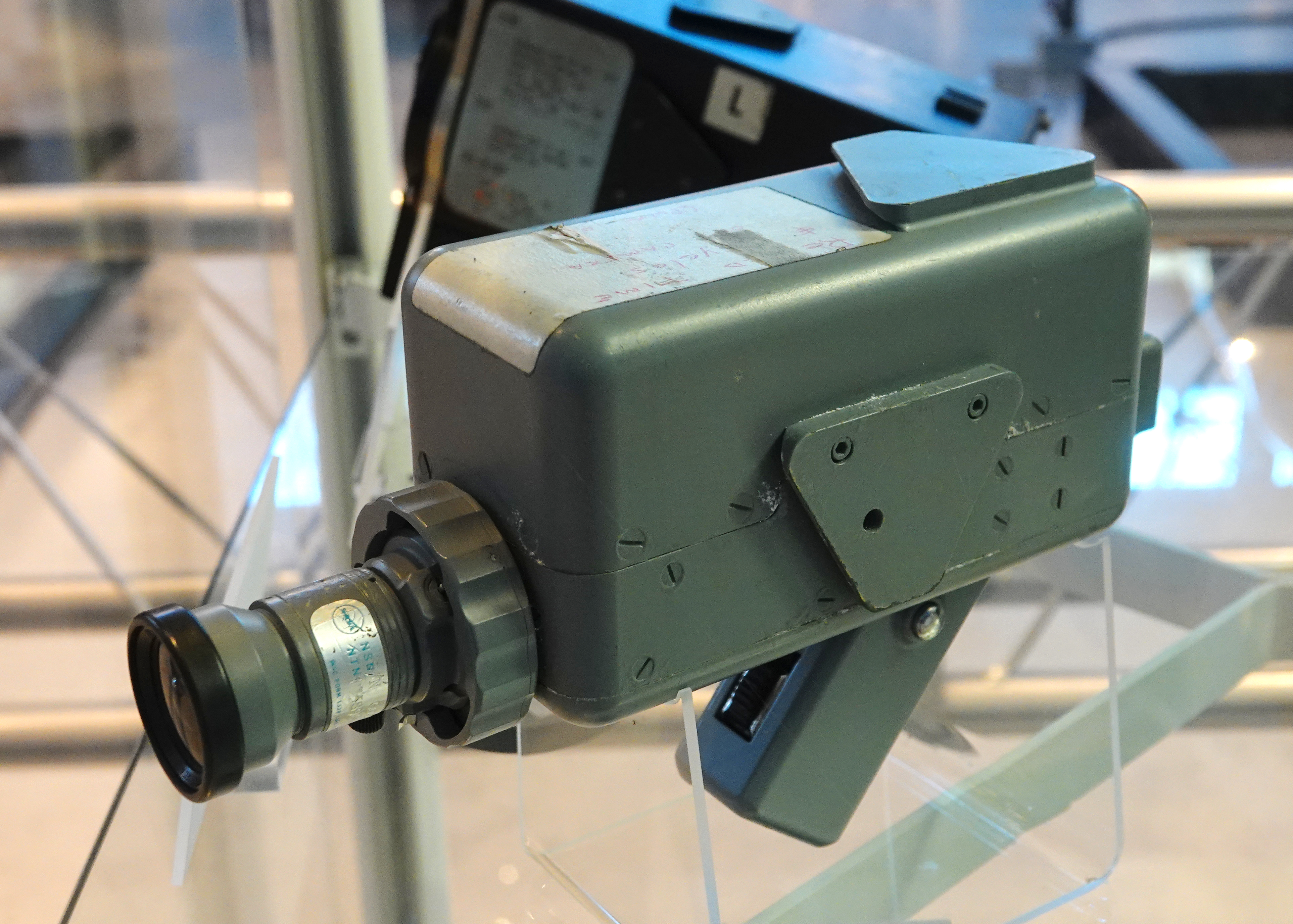 This portable RCA TV camera, used by Apollo astronauts for training, is identical to the one used during spaceflight. Including a TV camera on Apollo missions was controversial, because it had little planned engineering or scientific value. Its major purpose was to share Apollo experiences with audiences back on Earth. Picture taken at the National Air and Space Museum's Steven F. Udvar-Hazy Center in Chantilly, Virginia, USA.